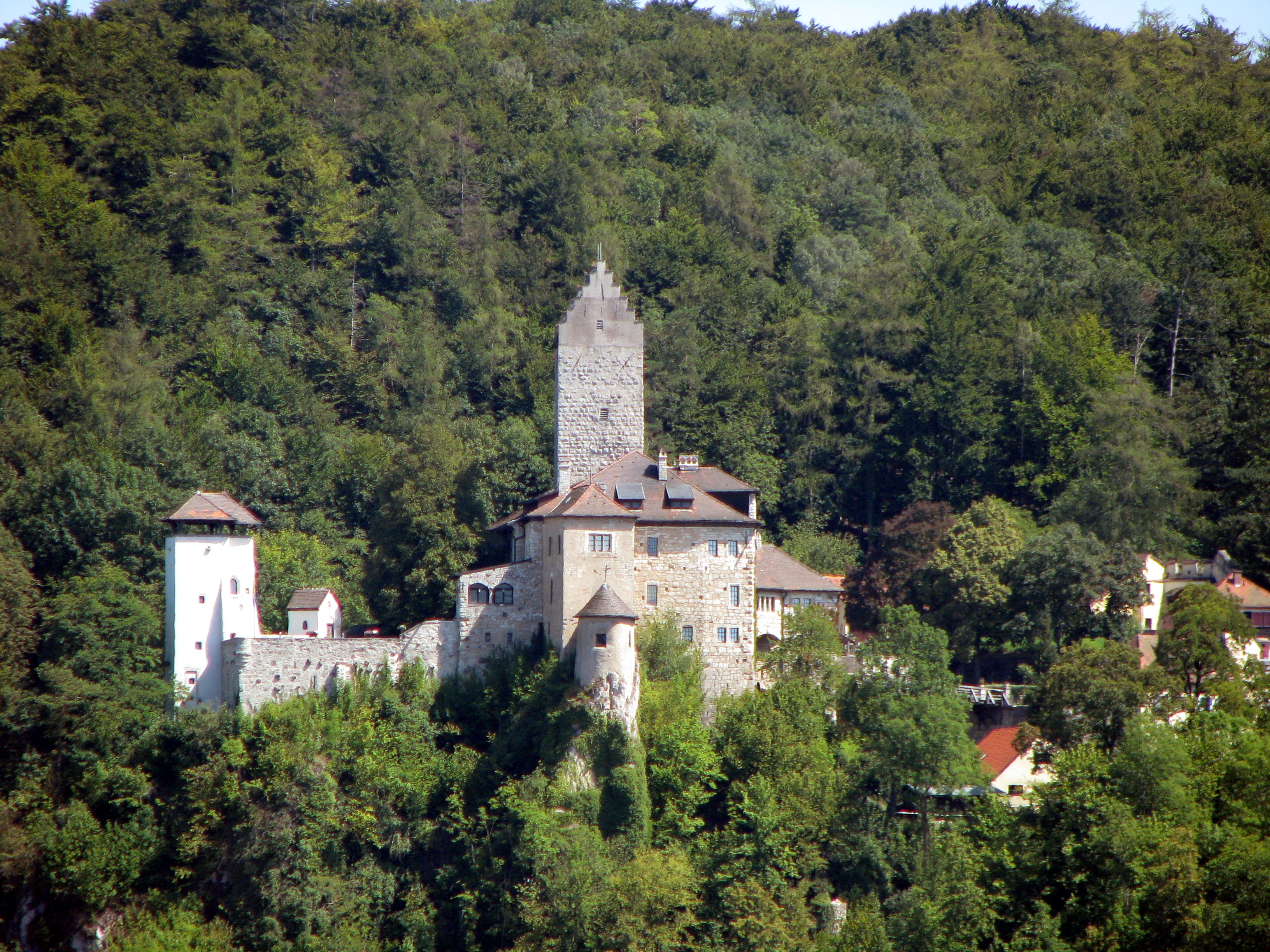 Castle Kipfenberg above Kipfenberg in Germany